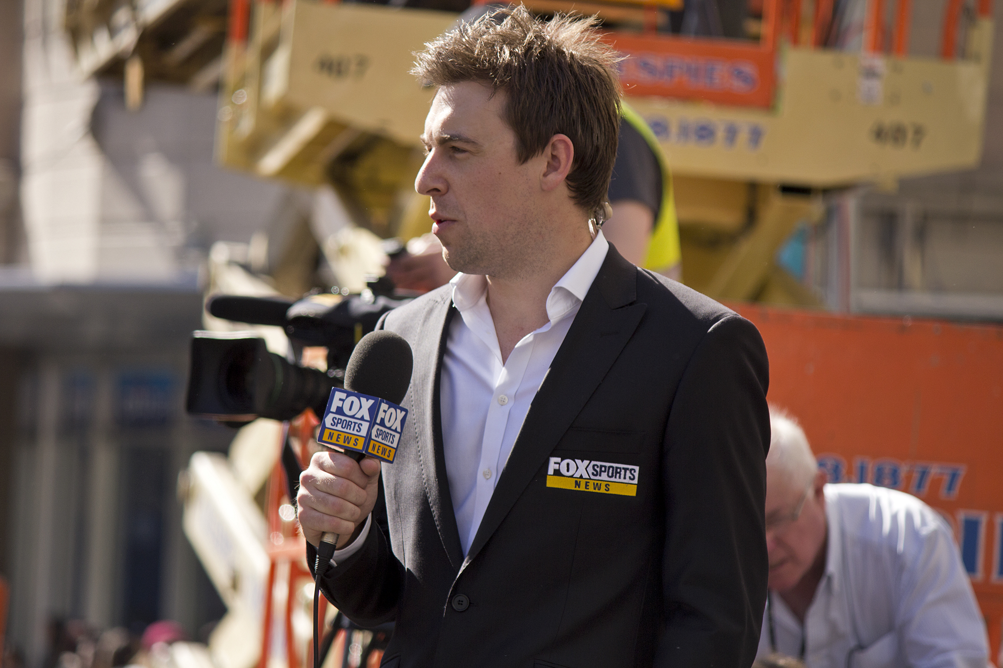 Fox Sports News reporter Adam Curley at the Welcome Home parade in Sydney.